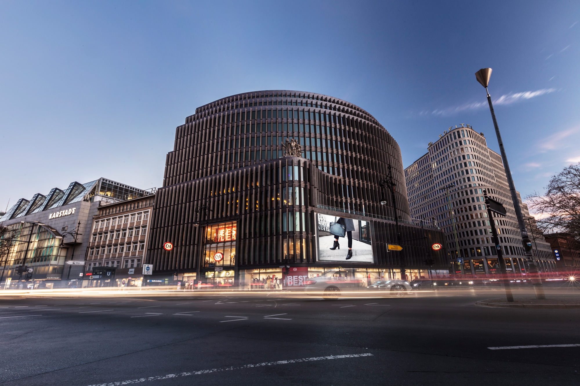 Ku’damm-Eck, Berlin, future headquarters of the RSG Group